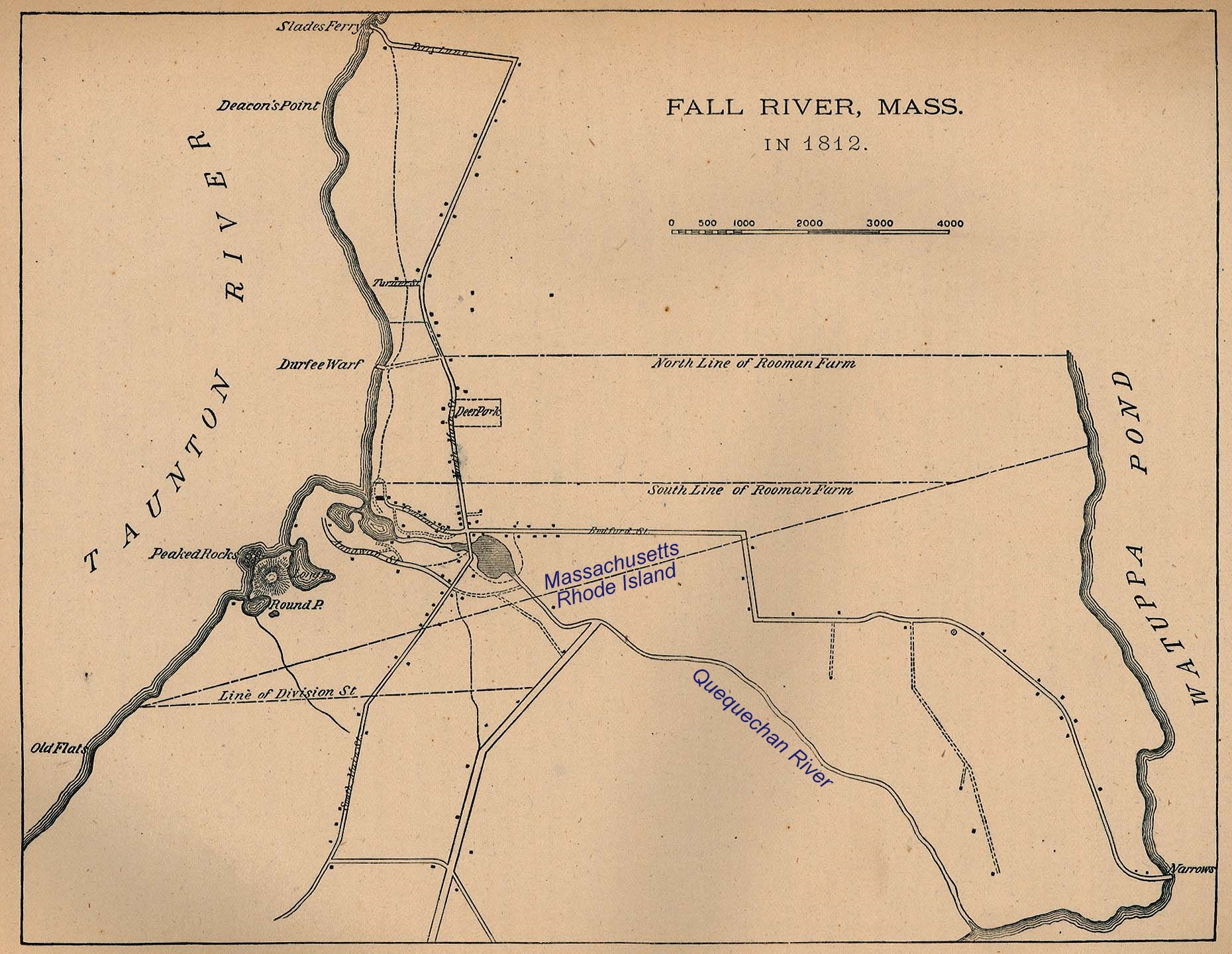 1812 Map of Fall River, Massachusetts with portion of Tiverton, Rhode Island